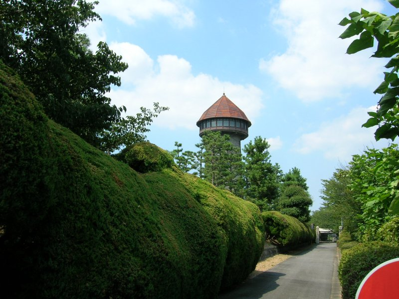 Higashiyama Kyusui-toh (Higashiyama Watertower) Loc: Nagoya city, Aichi Prefecture, Japan 東山給水塔 撮影場所 愛知県名古屋市